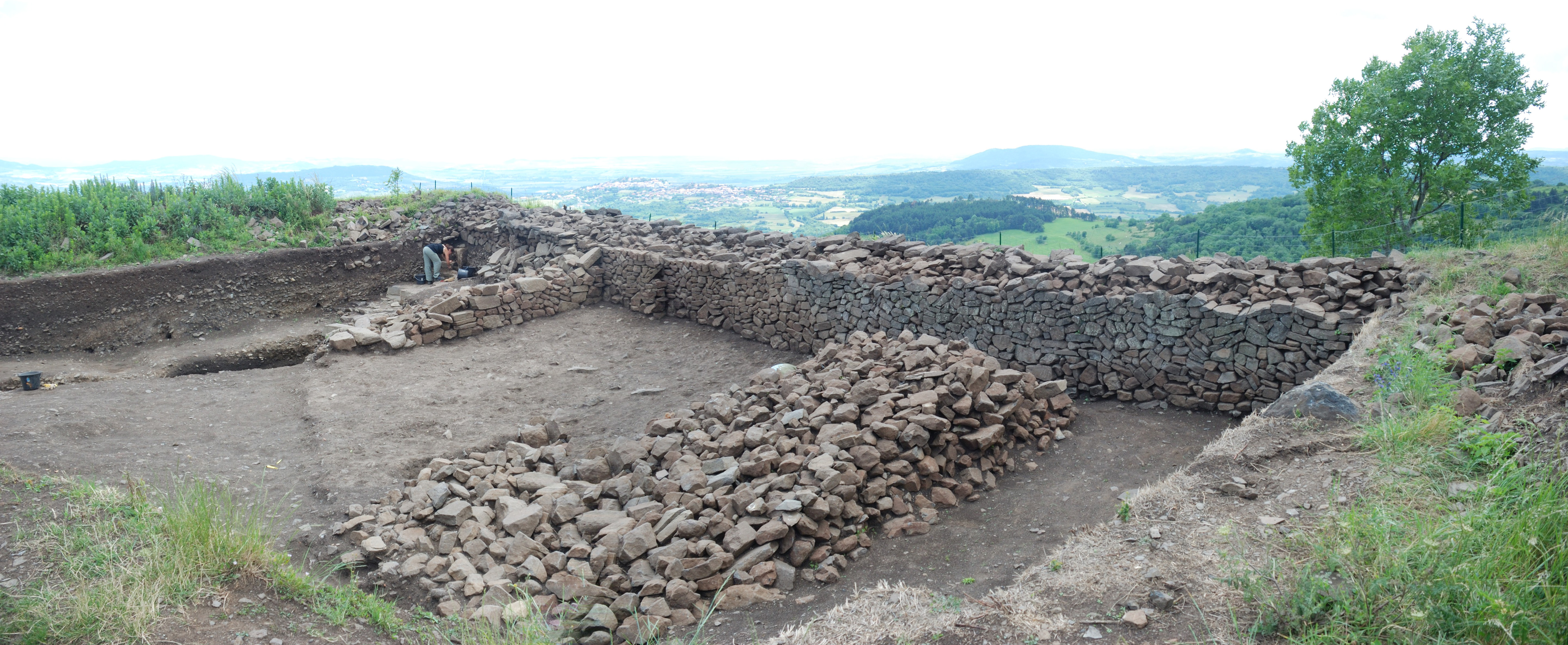 Archeological site of Gergovie, wall of the oppidum